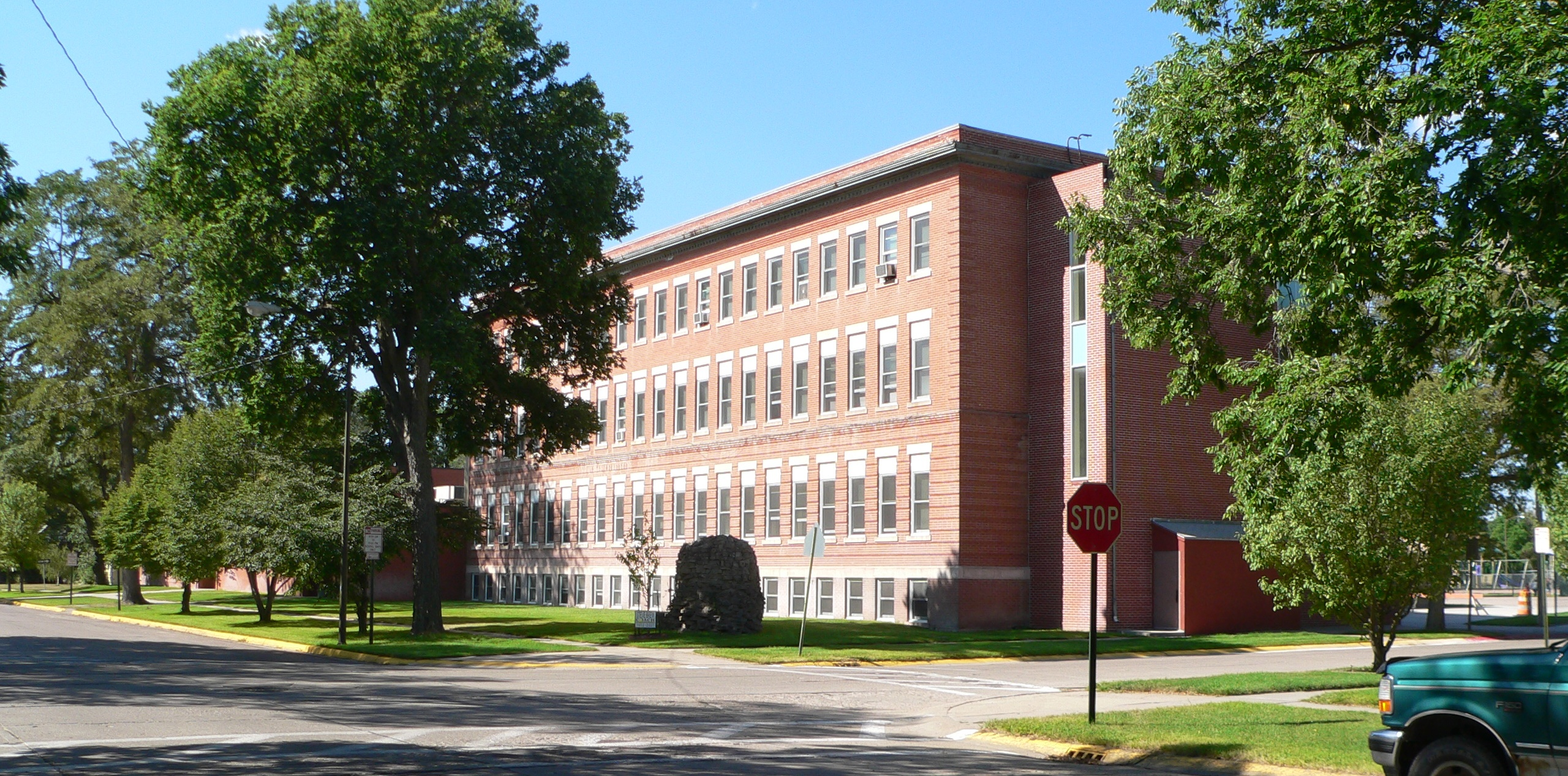 St. Agnes Academy in Alliance, Nebraska; seen from the northeast. The Holy Rosary Parish Center, attached to the south end of the Academy building, is almost completely obscured by the trees at left. The dark rounded object silhouetted against the building in the center is a grotto containing a statue of St. Agnes, facing away from the camera.